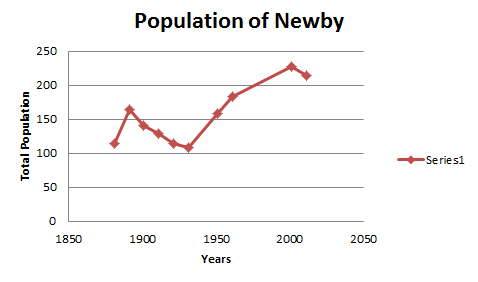 Total Population of Newby Civil Parish, Cheshire, as reported by the Census of Population from 1881 to 2011